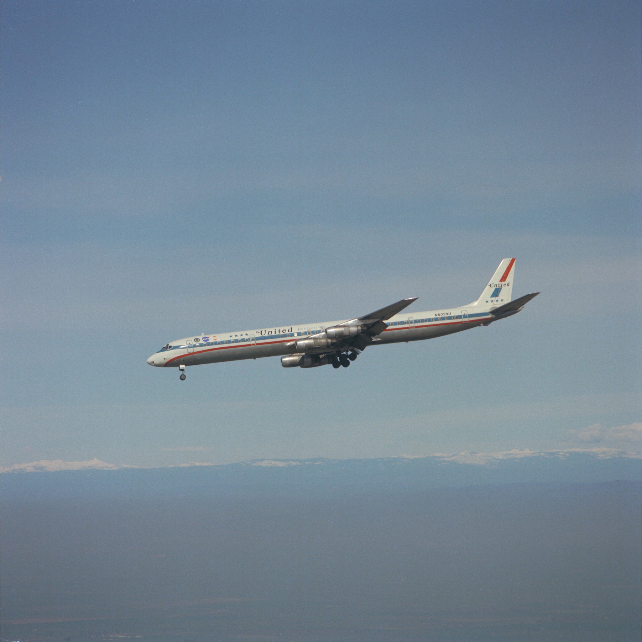 United Airlines DC-8 (N8099U) Two Segment Evaluation. In-Flight Thrust Reversing, Steep Approach Research. The thrust reversing concept was applied to the DC-8 Commercial transport to achieve the rapid descent capability required for FAA certificaiton. Note: Used in publication in Flight Research at Ames; 57 Years of Development and Validation of Aeronautical Technology NASA SP-1998-3300 fig 96